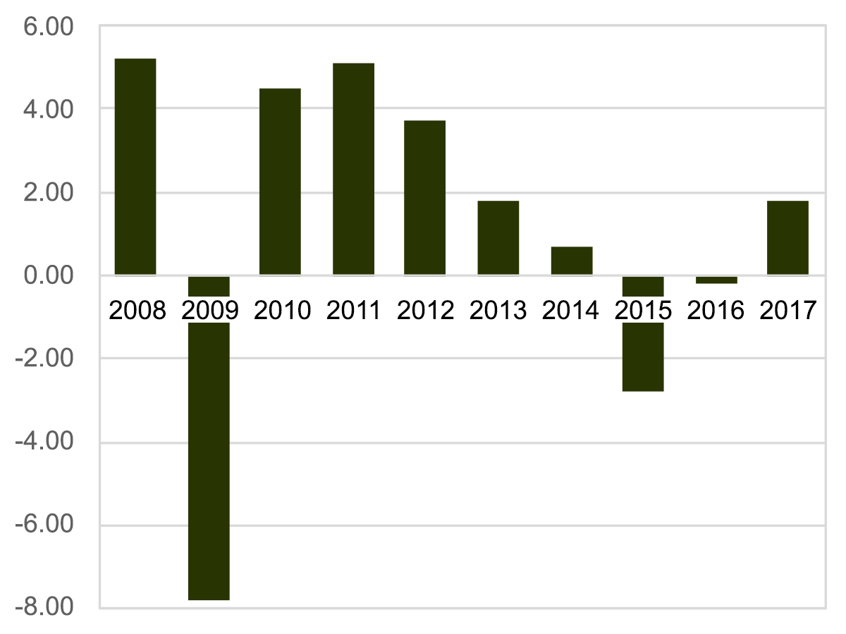 Annual GDP growth in Russia, 2008-2017. Raw data pulled from